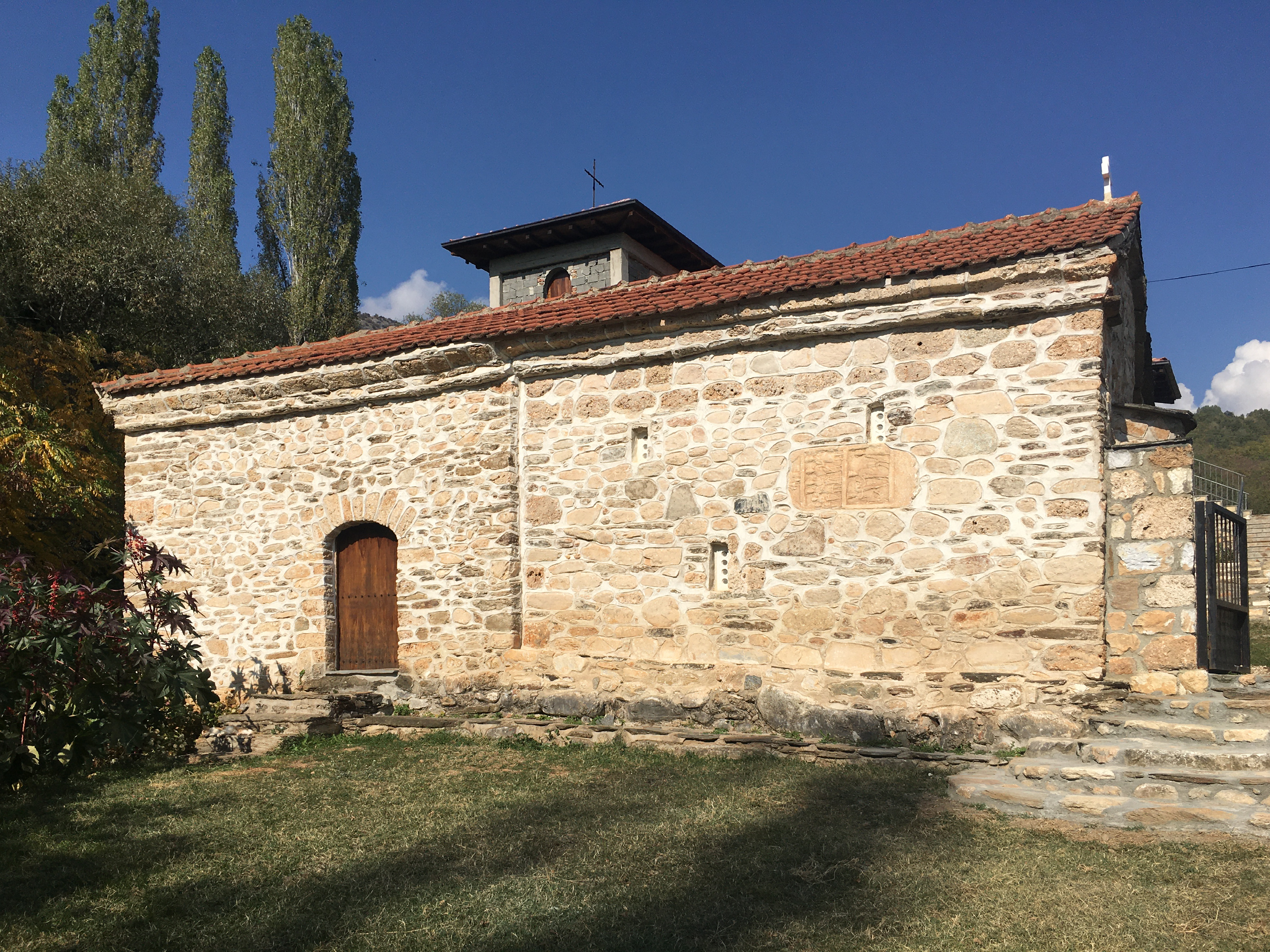 St. Nicholas Church in the village of Zrze